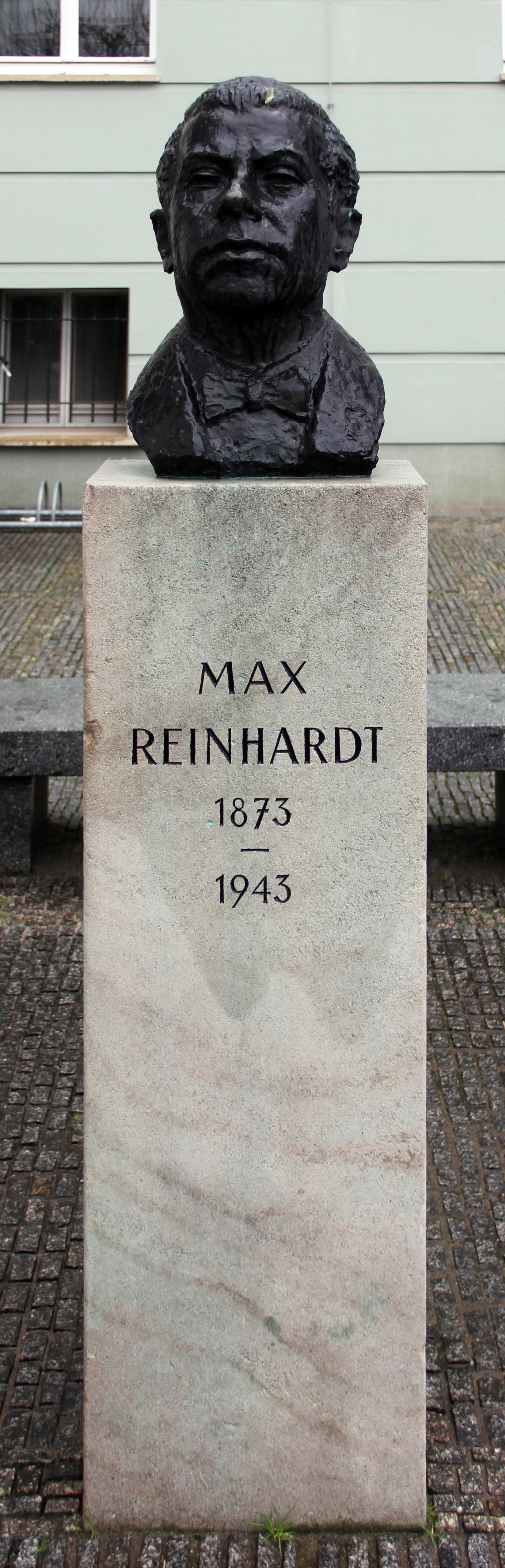 Bust, Max Reinhardt by Wilfried Fitzenreiter, 1963, Schumannstraße 13a, Berlin-Mitte, Germany